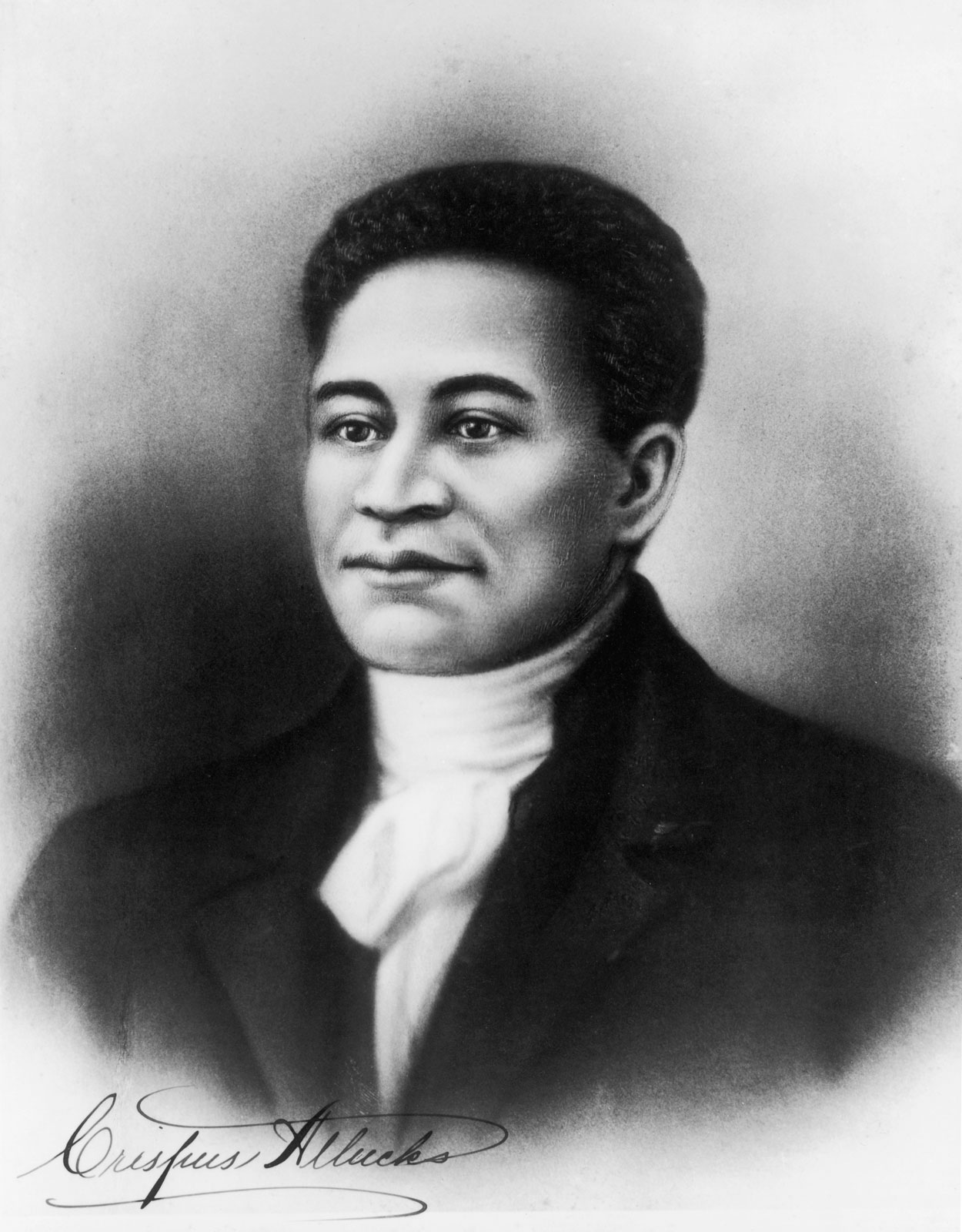 Public domain photo. Source information is necessary so we can verify the image is contemporaneous (which would make it ) Superm401 - Talk 01:03, 2 November 2007 (UTC) Public domain photo of portrait of Attucks, artist unknown. Image from Bridgewater State College archive in Bridgewater, Massachusetts. If the source is unknown, we can't verify that it's PD. We need to show it was published before 1923, or that the artist died 70+ years ago. Superm401 - Talk 19:12, 2 November 2007 (UTC) According to Getty Images ([1], but this link may expire), the image was published on en:2 January, en:1754. It was published before 1923, and the author died before 1907, so the image is clearly . Superm401 - Talk 19:39, 2 November 2007 (UTC) I added a better version of the image, from Encyclopedia Brittanica/Getty. Superm401 - Talk 20:02, 2 November 2007 (UTC) Getty Images' claim of a 1754 publication date for the image is improbable. It's not likely that an obscure 18th century "mulatto" runaway slave would have had a professional portrait done 16 years before the event that made him a legend. My guess is that the date given is a typo, and that "1854" was intended. That would be more believable because Attucks became a symbol during the Abolitionist movement at that time. (Uncle Tom's Cabin was published in 1852.) If so, the image is still clearly public domain, although not a genuine portrait made during Attucks's lifetime. —Kevin Myers 18:49, 17 November 2007 (UTC) You're right. That doesn't make sense. Nevertheless, if it was made 1854, it's still . Superm401 - Talk 02:18, 30 November 2007 (UTC) Category:United States history images